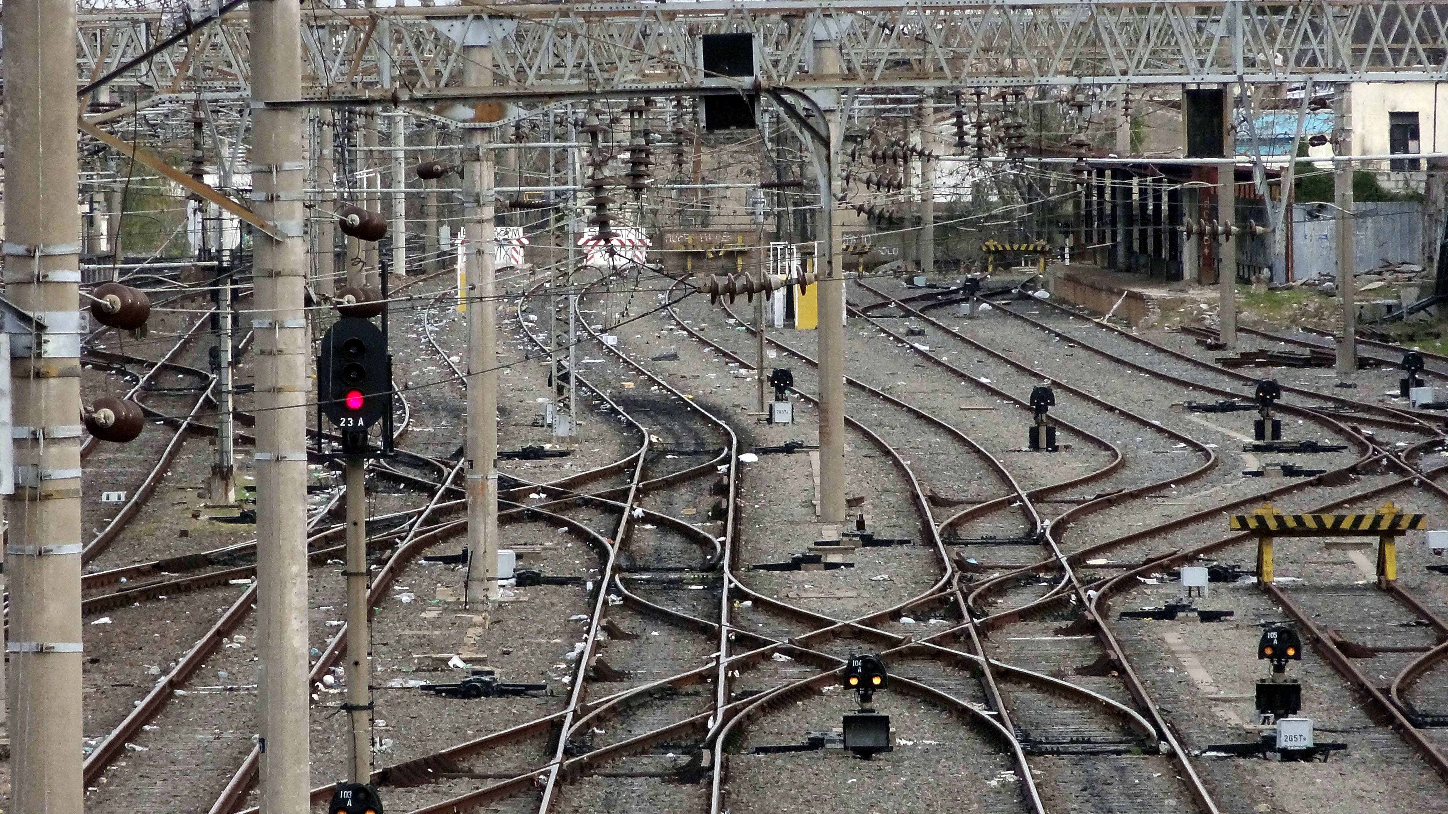 Rail infrastructure near Constitución railway station in Buenos Aires.